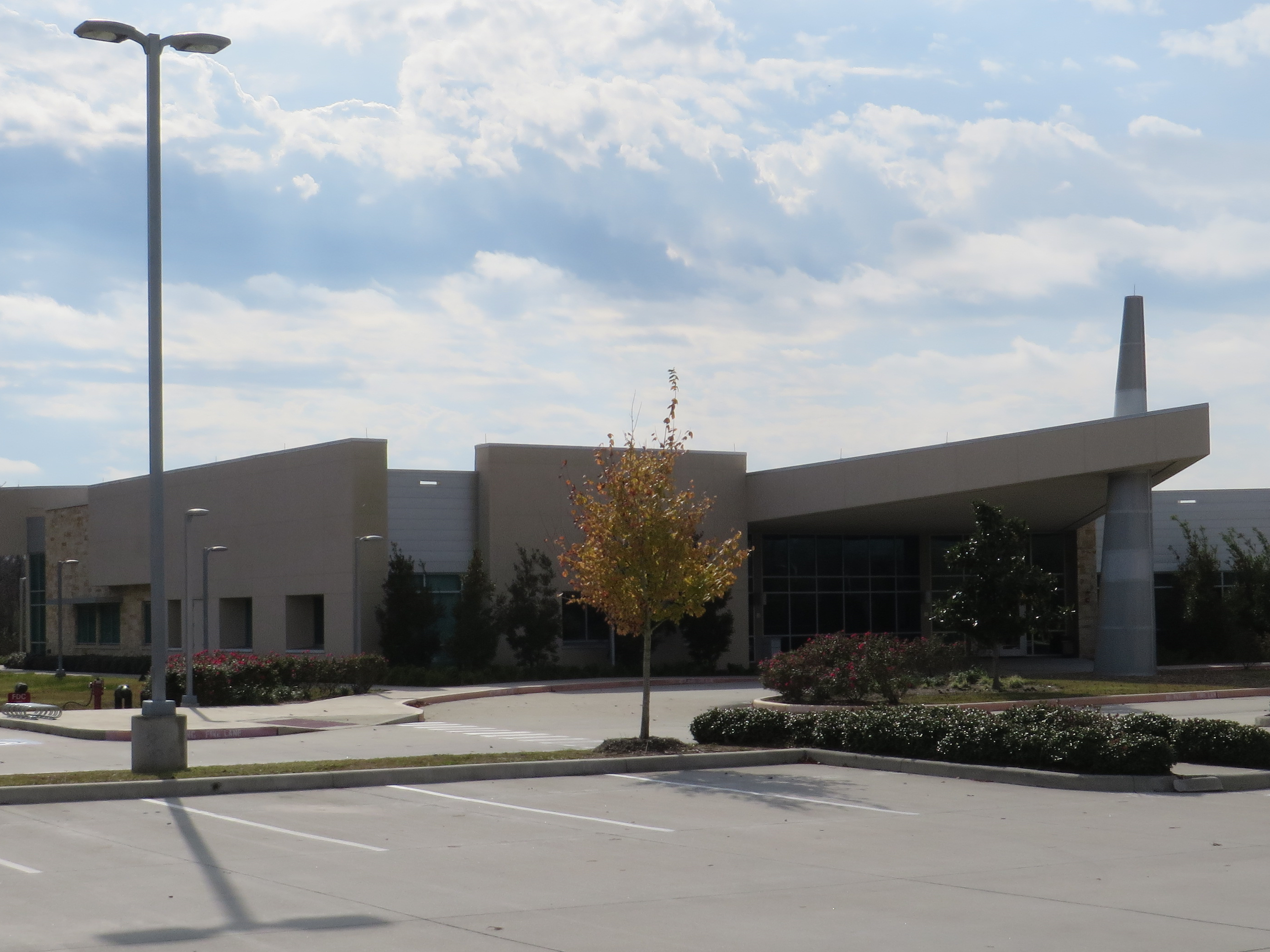 Entrance to University of Houston–Clear Lake's Pearland campus building in December 2013.